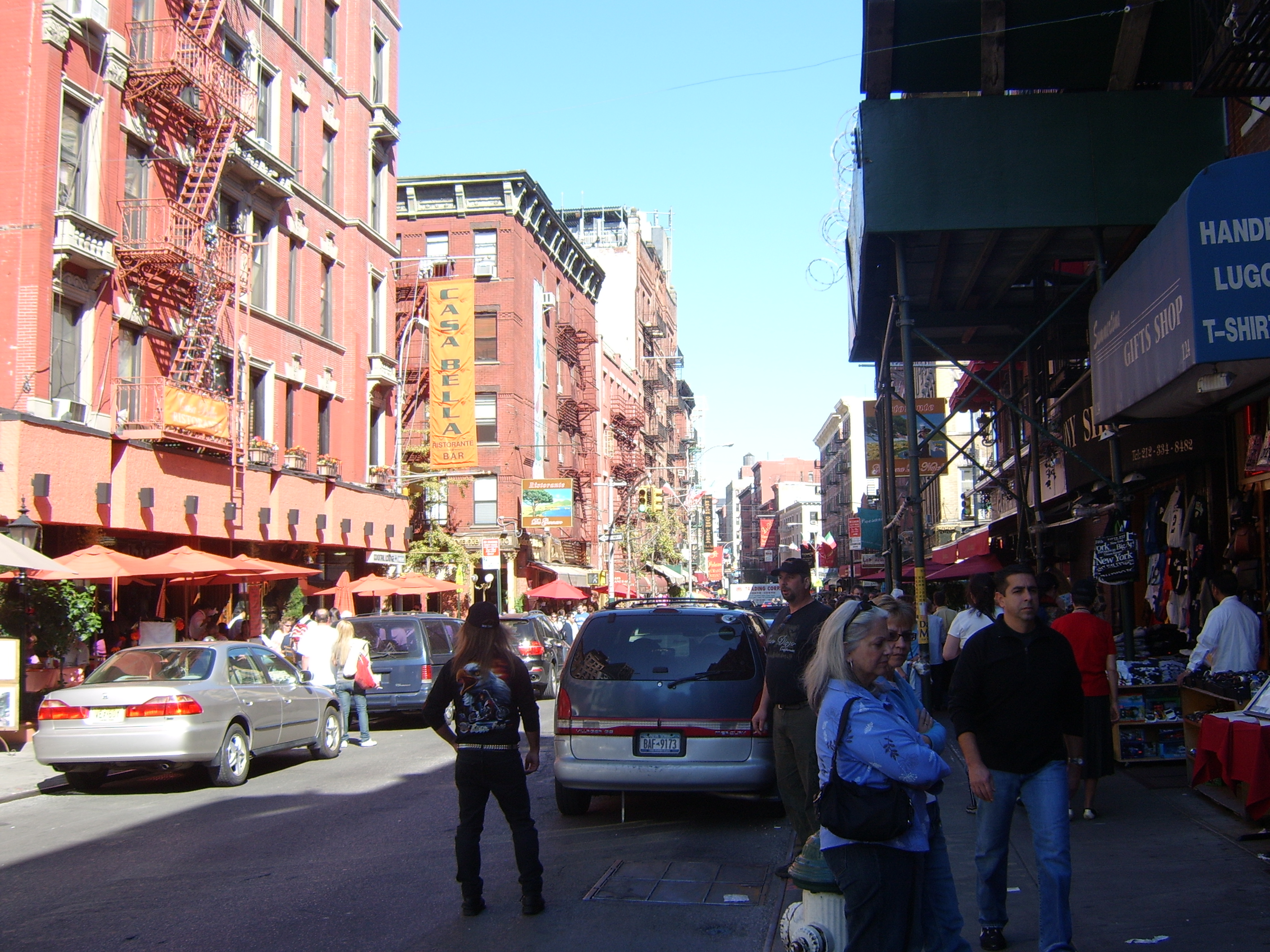 Mulberry Street, Little Italy, Manhattan, New York City